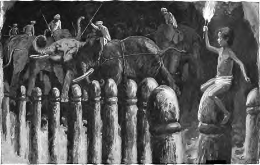 "He would get his torch and wave it, and yell with the best."